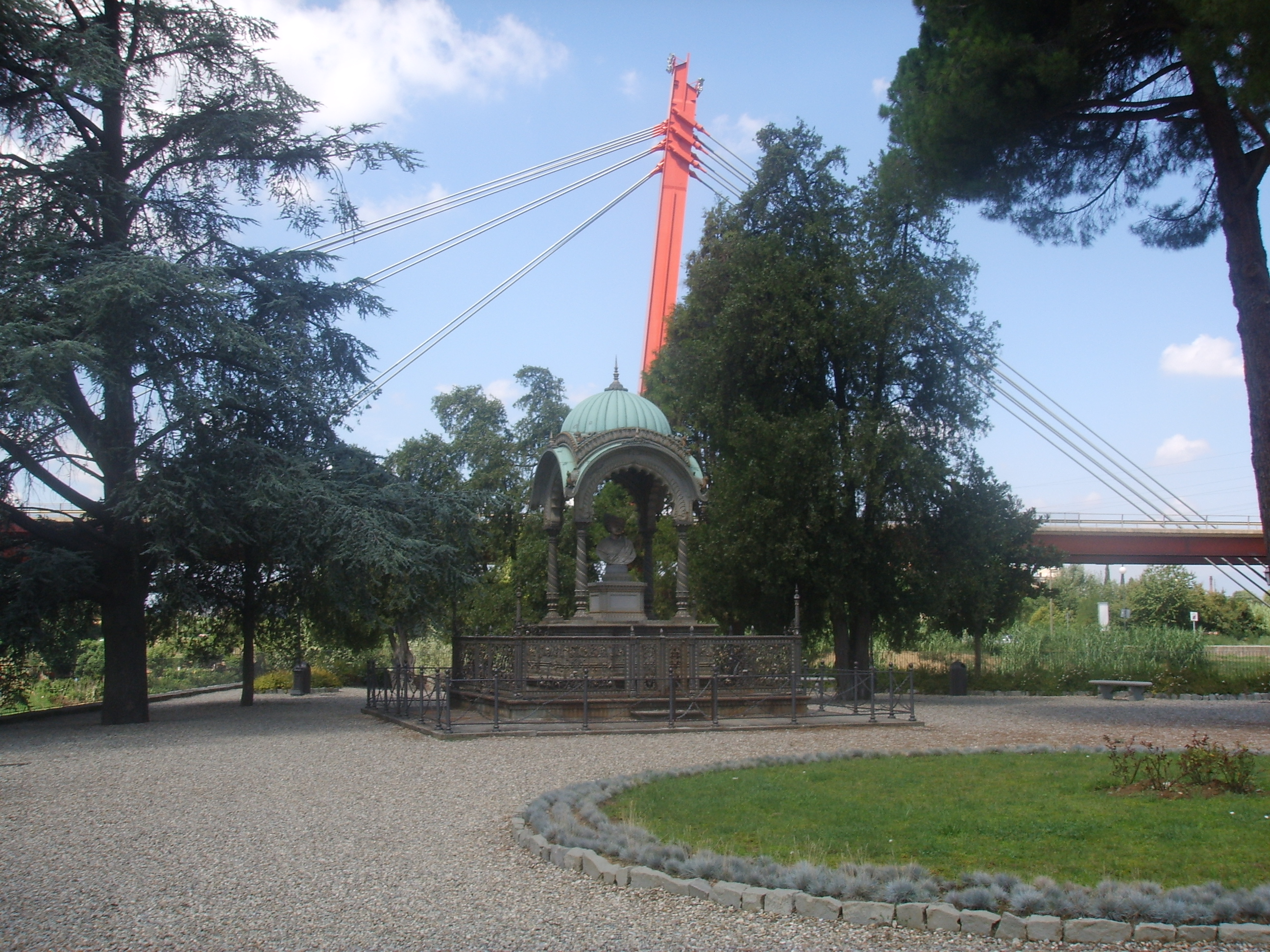 Ponte all'Indiano bridge in Florence, Italy